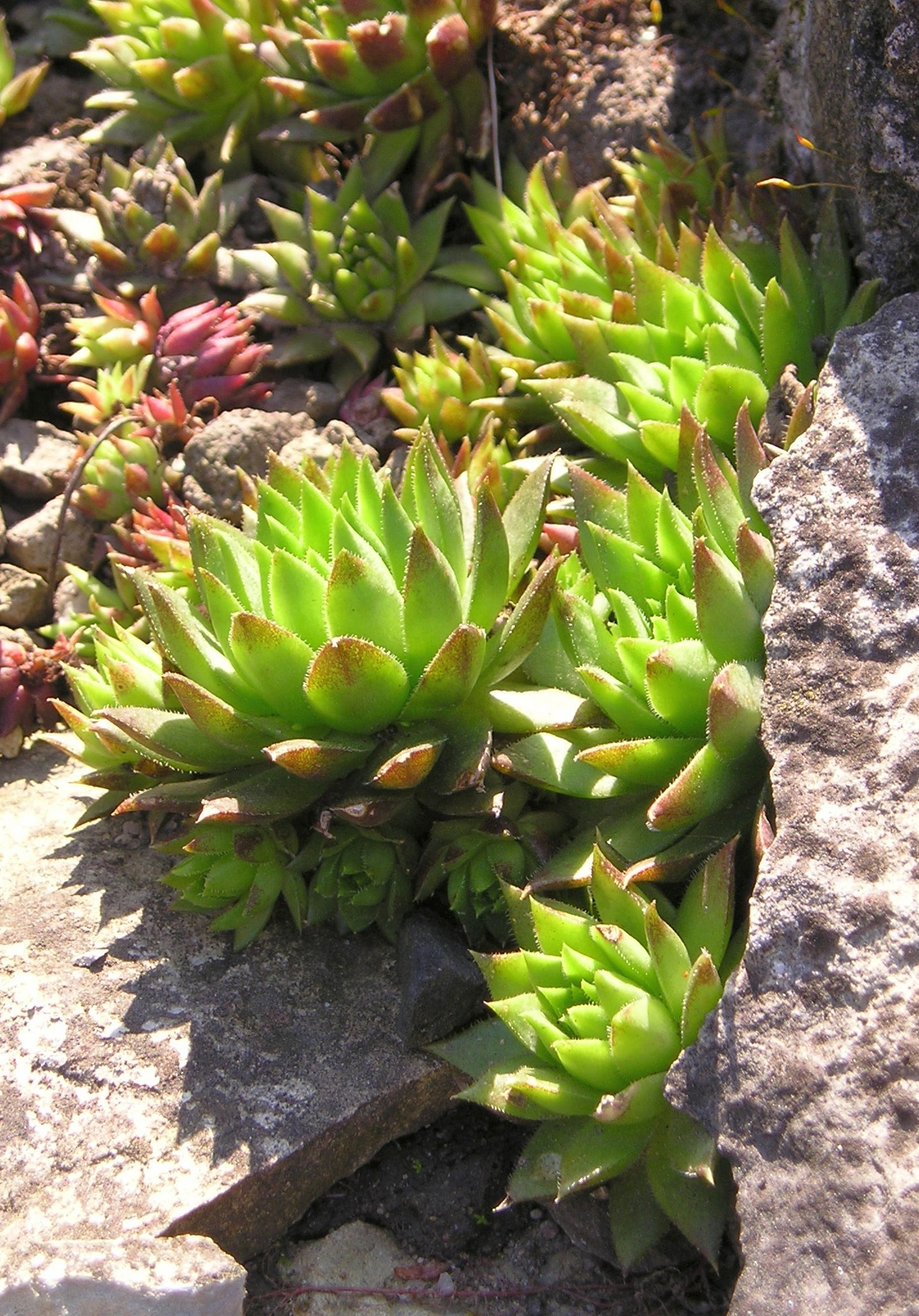 Hauswurz (Jovibarba globifera) Botanischer Garten TU Dresden, April 2009 Creative Commons Licence BY 2.0 Quellenangabe / Credit: Photo by Maja Dumat